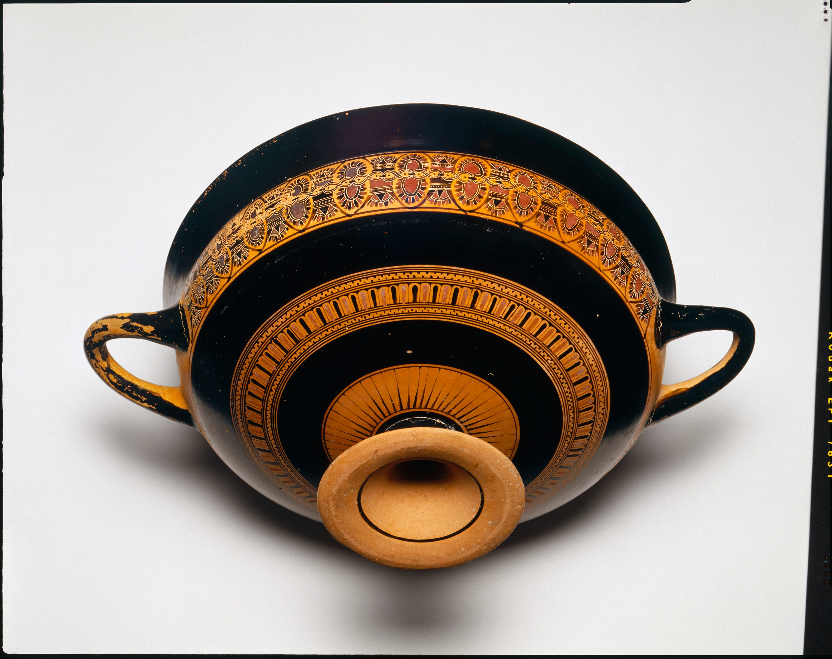 Greek, Attic; Kylix, Siana cup; Vases